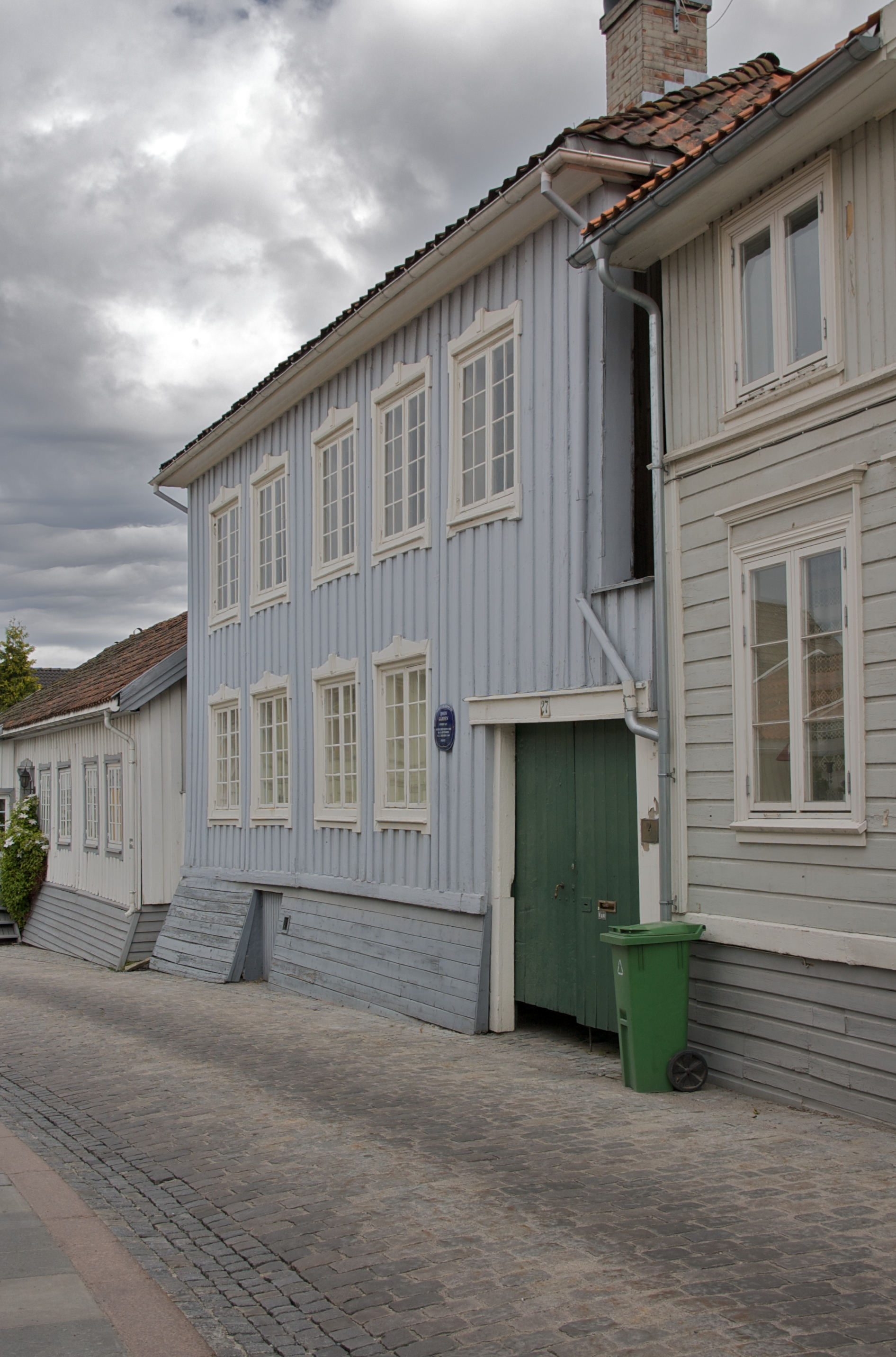 Ibsengården in Snipetorp, Skien, Norway.